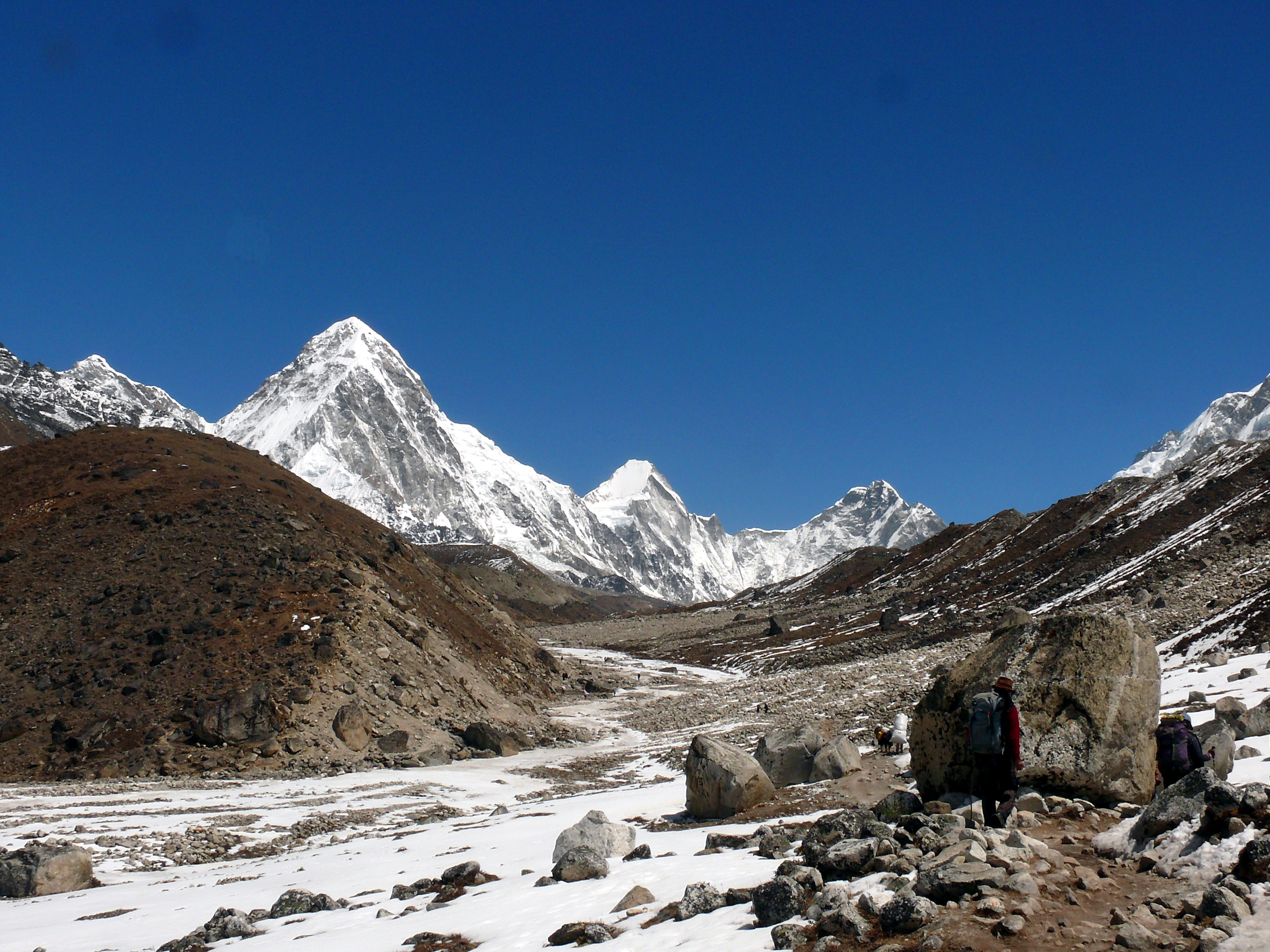 khumbu Glacier, Pumori, Lingtren, Khumbutse